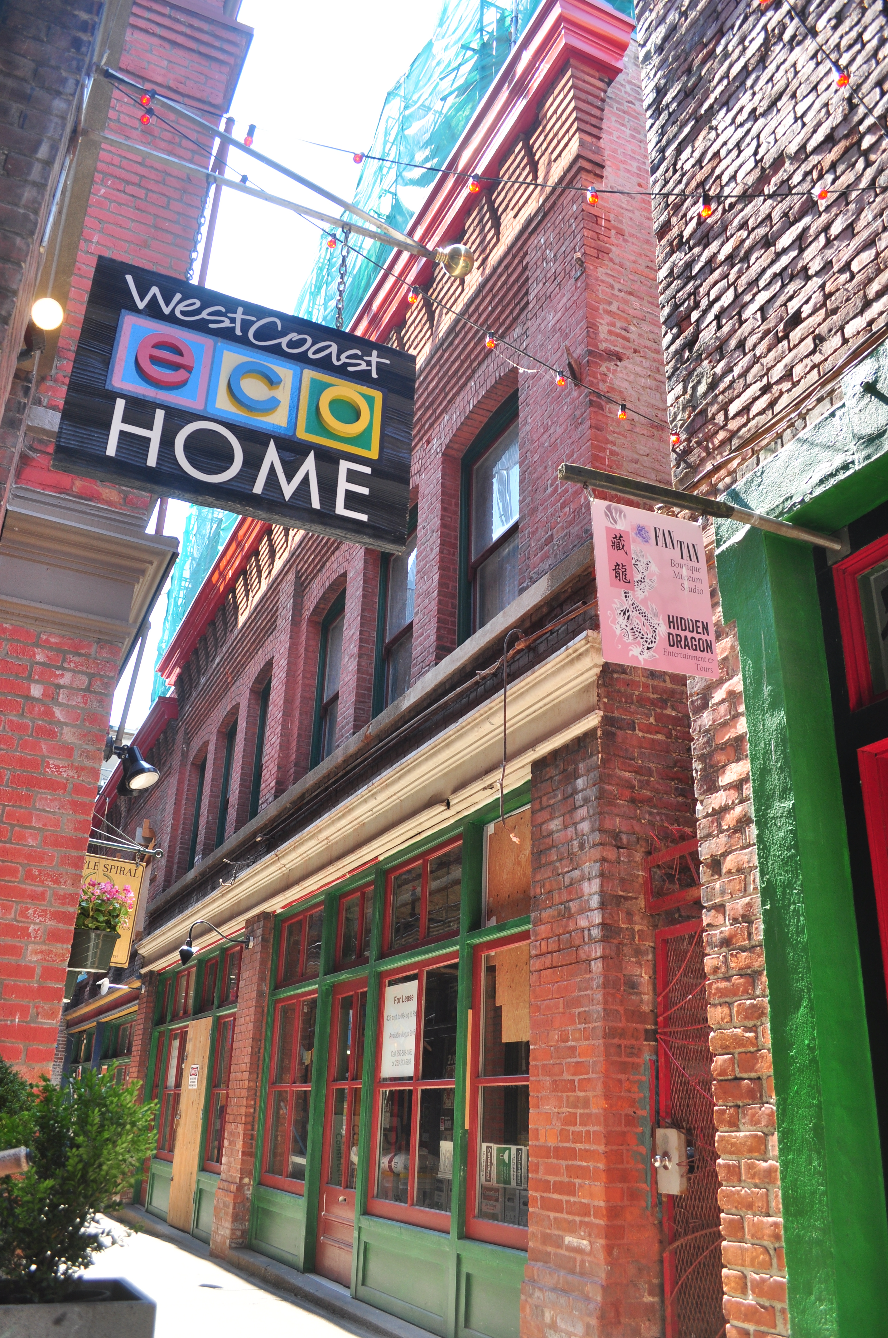 Fan Tan Alley in Victoria, British Columbia's Chinatown is famous for its extremely narrow entrances from either end. View here is looking south, looking toward Pandora Avenue. The is a view of designated heritage site 10-14 Fan Tan Alley; the Ning Young Building (also designated) can be seen in part on its left.